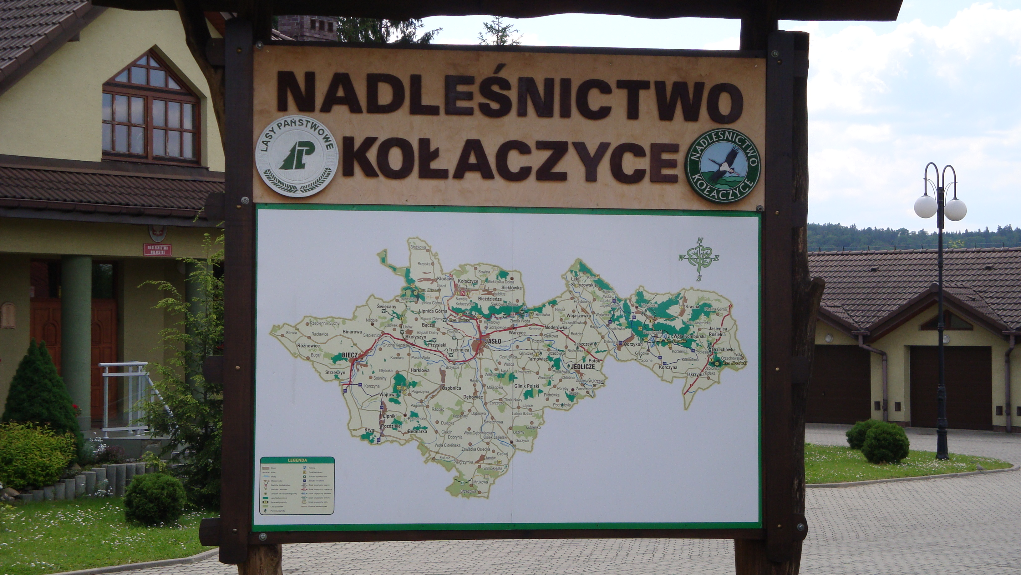 Kołaczyce Forestry Information Board